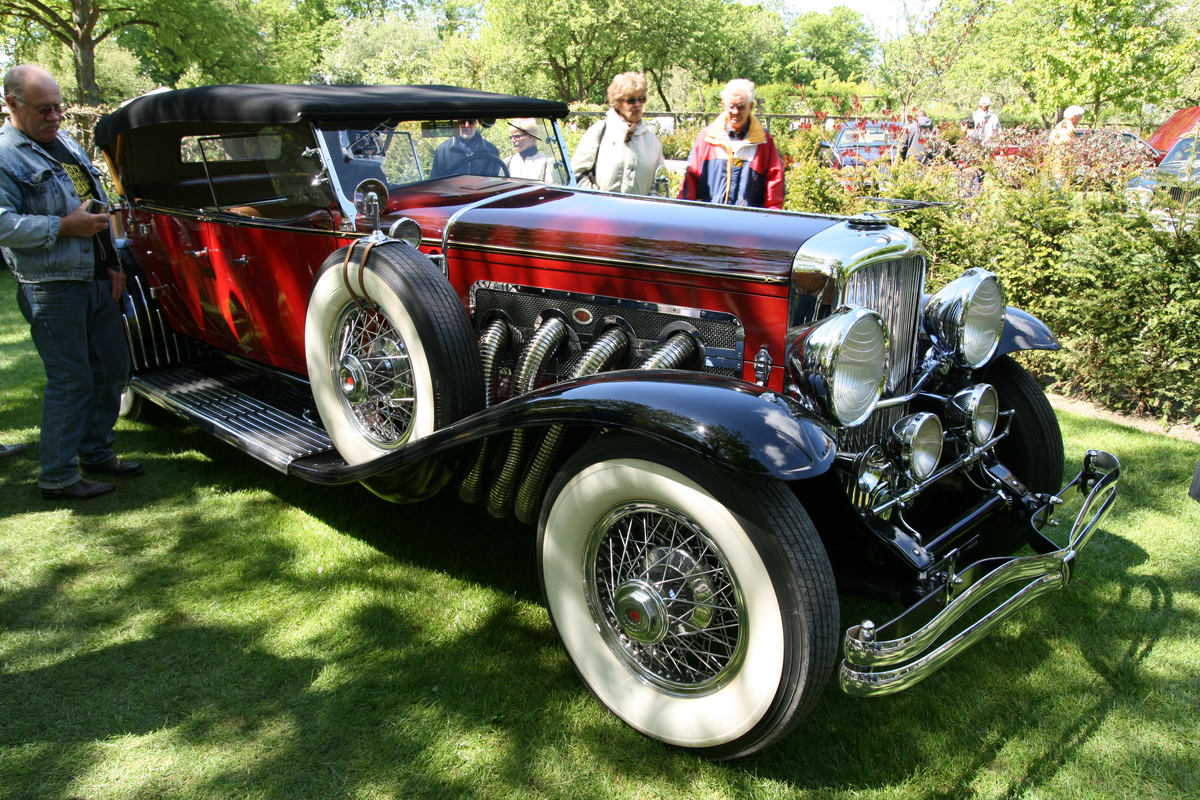 Front right view of a 1933 Duesenberg Model J Derham Tourster parked at the Sofiero Classic car show at Sofiero castle in Helsingborg, Sweden.